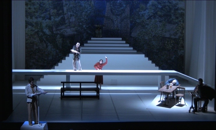 "Au Bois lacté" ("Under Milkwood") an opera by François Narboni (2008)